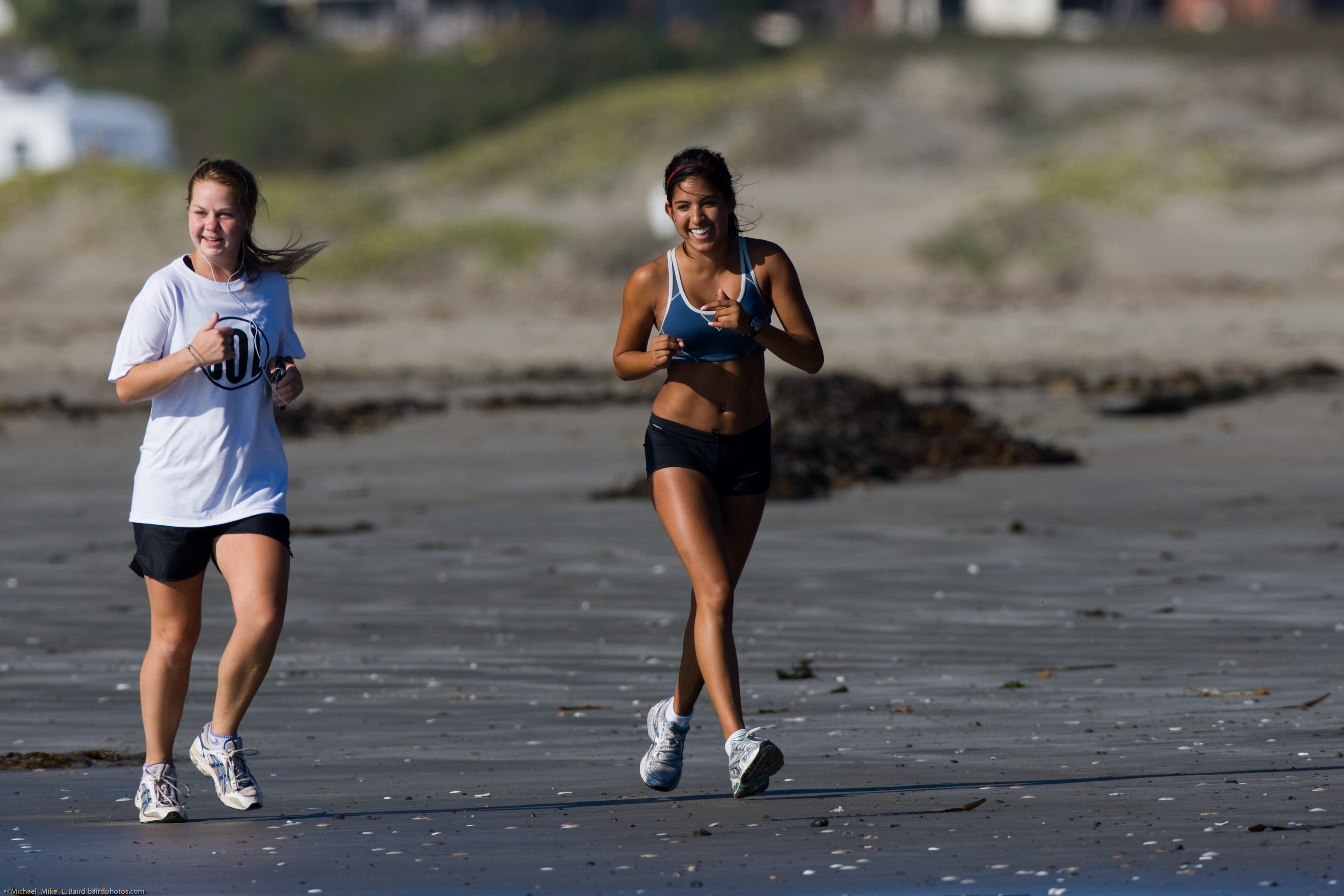 Two young girls smile and jog along Morro Strand State Beach, Morro Bay, CA 29 Sept. 2008.